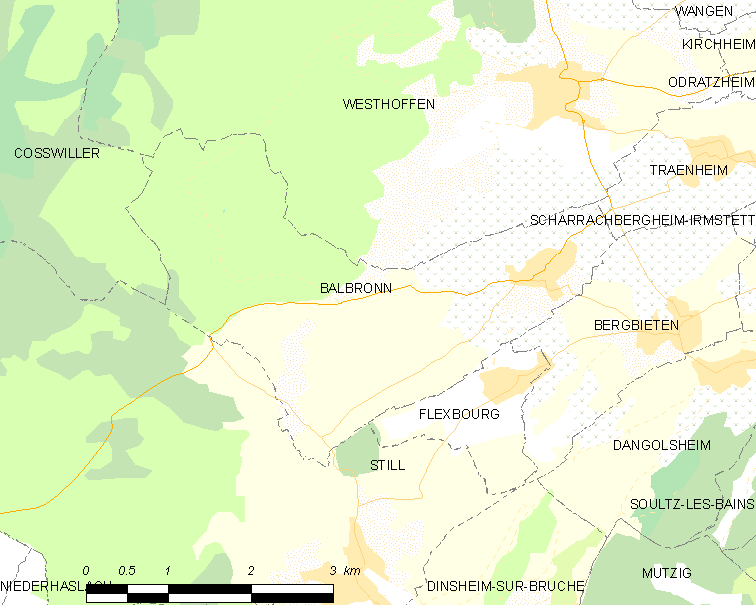 Map of French municipality